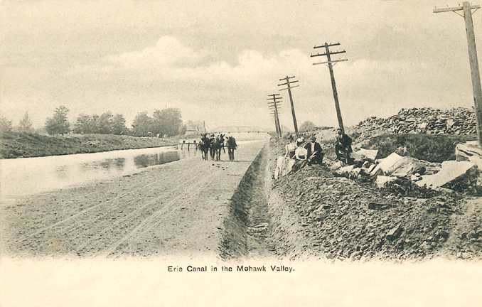 Erie canal in Mohawk Valley